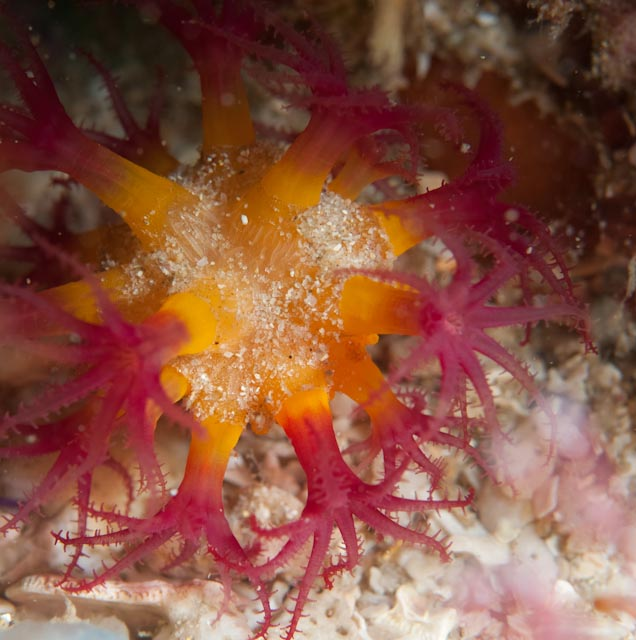 A photograph of the variable soft coral, Eleutherobia variabile, taken in about 20m of water on the Wild Side off Port Elizabeth, South Africa using a Fuji SP5